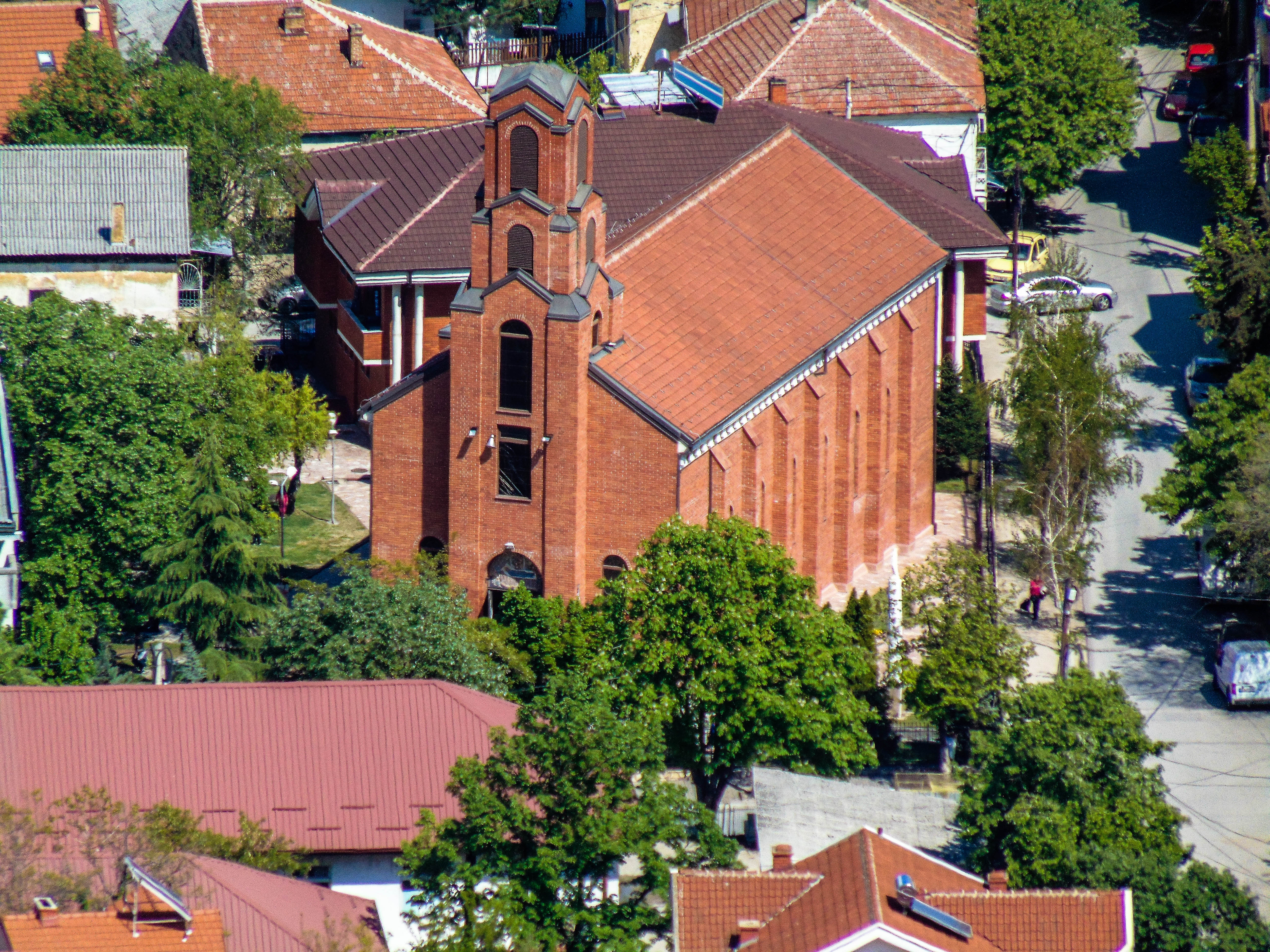 Assumption of Our Lady Church Strumica